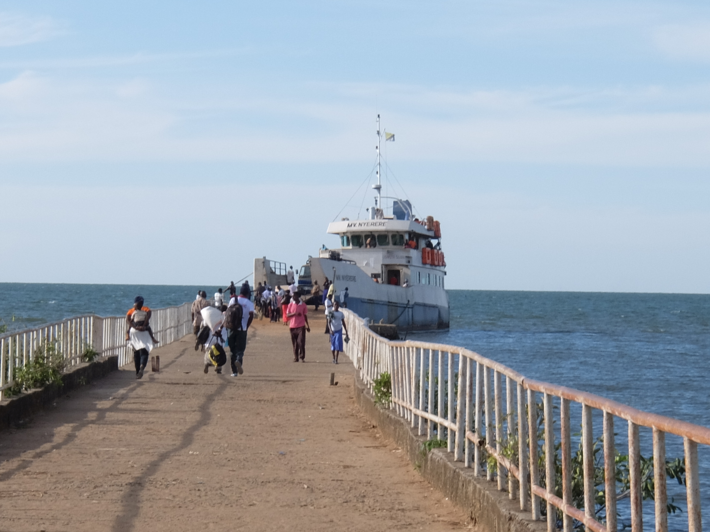 A picture of MV Nyerere at the dock in Bugolora, Ukerewe Island, taken in October 2015.